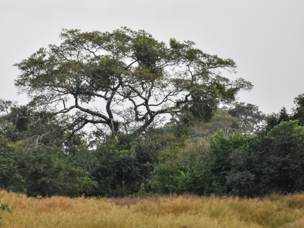 Savanna woodland in the National Park of Upper Niger